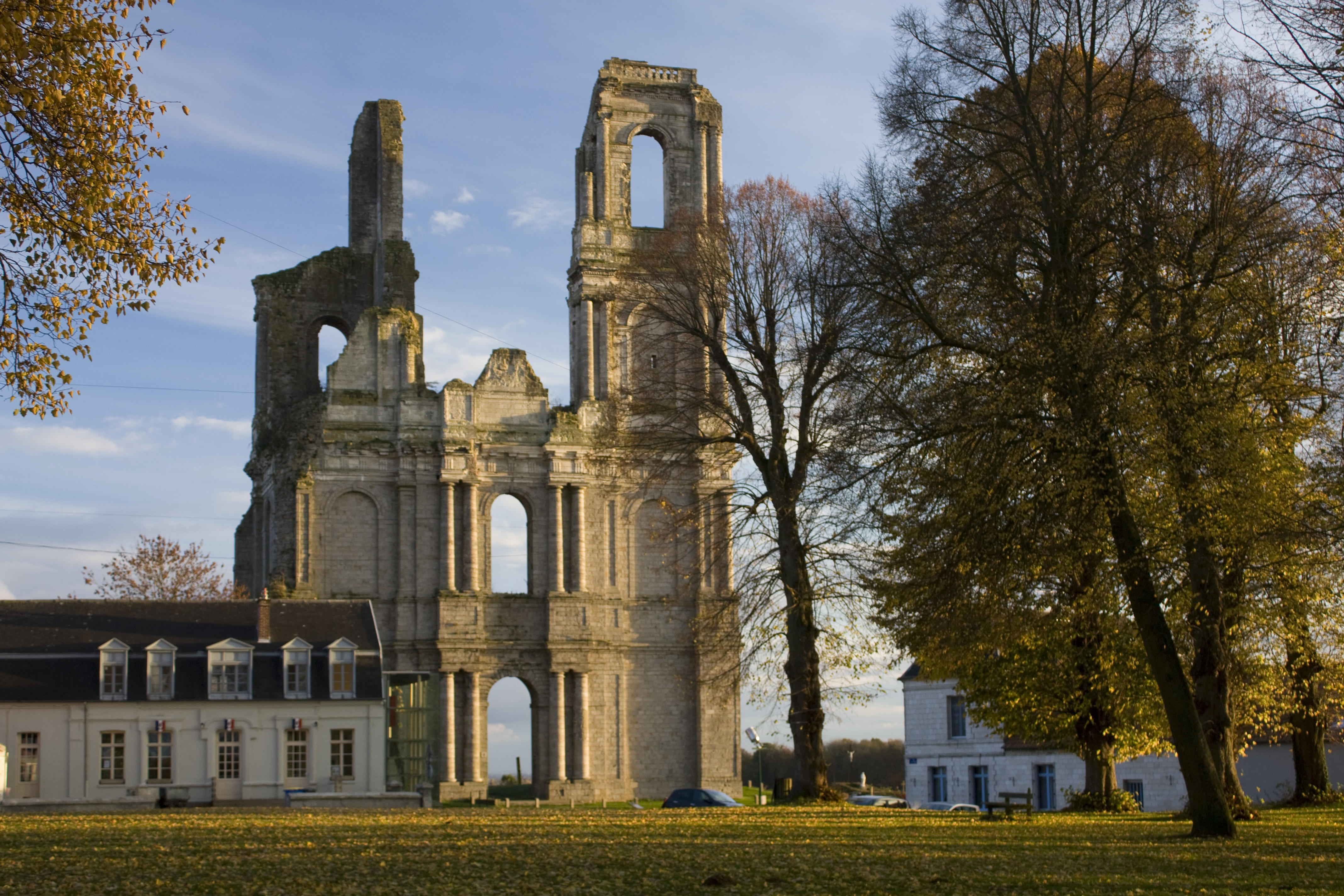 General view.